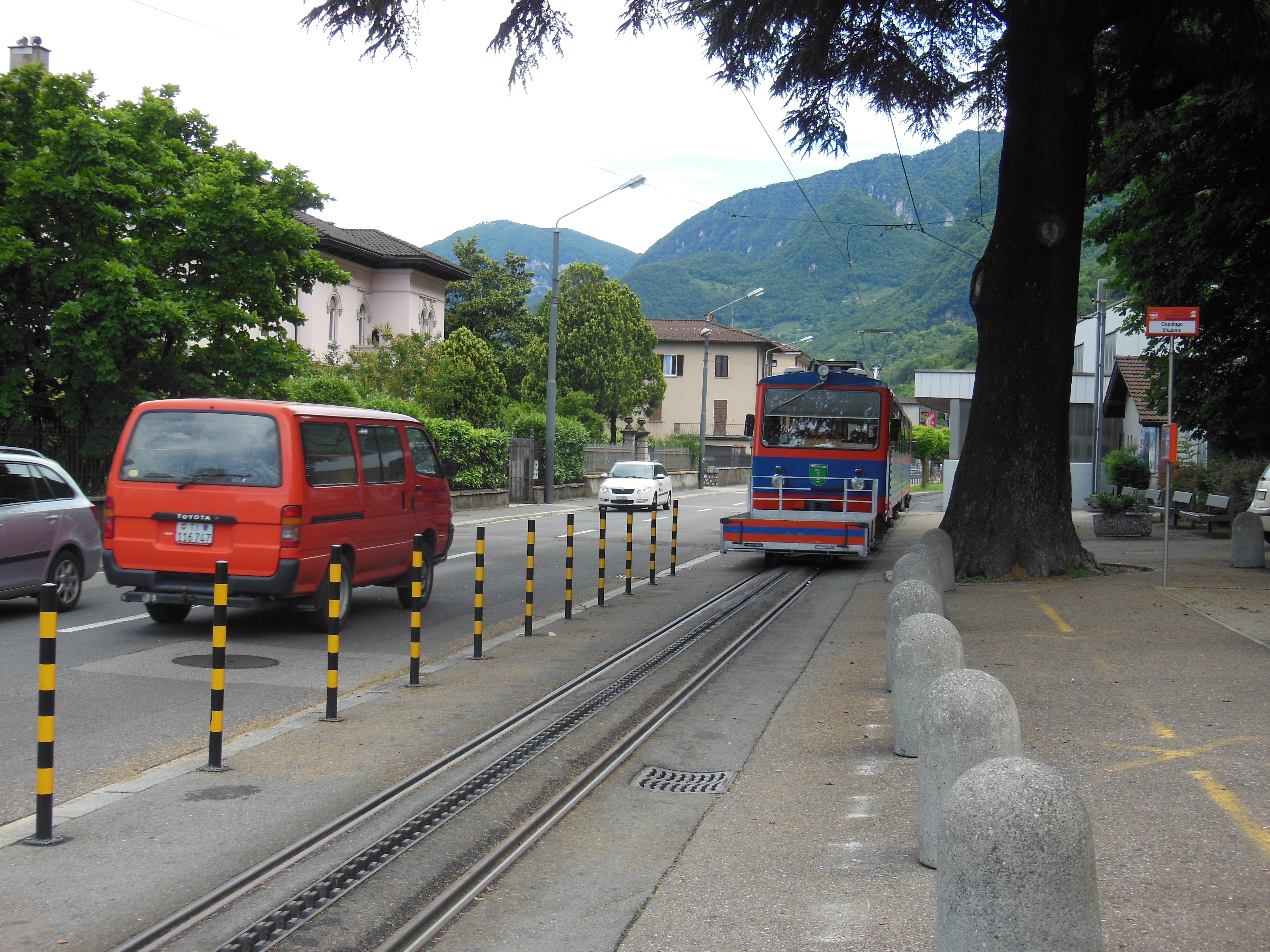 A train of the Monte Generoso Railway approaches Capolago-Riva San Vitale railway station from its depot. For more information, see Wikipedia articles Monte Generoso Railway and Capolago-Riva San Vitale railway station.